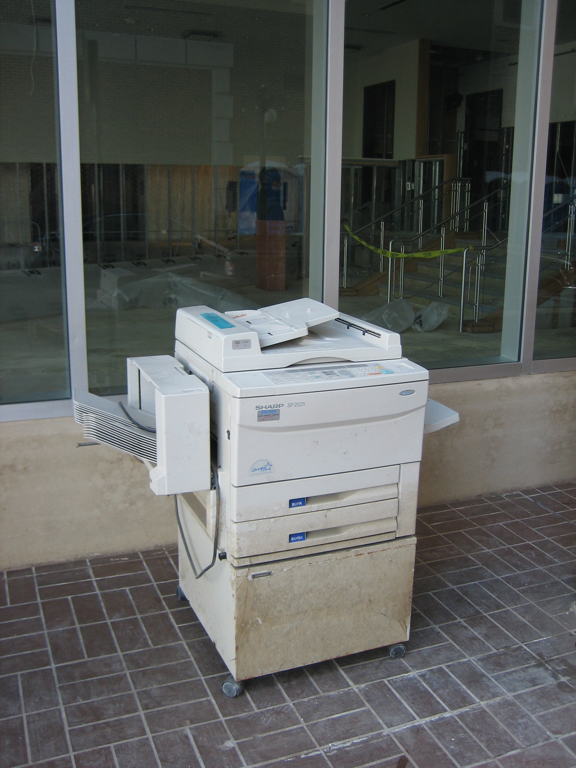 New Orleans after Hurricane Katrina: Flooded office machinery set out on curb, Central Business District Photo by Infrogmation, October 2005